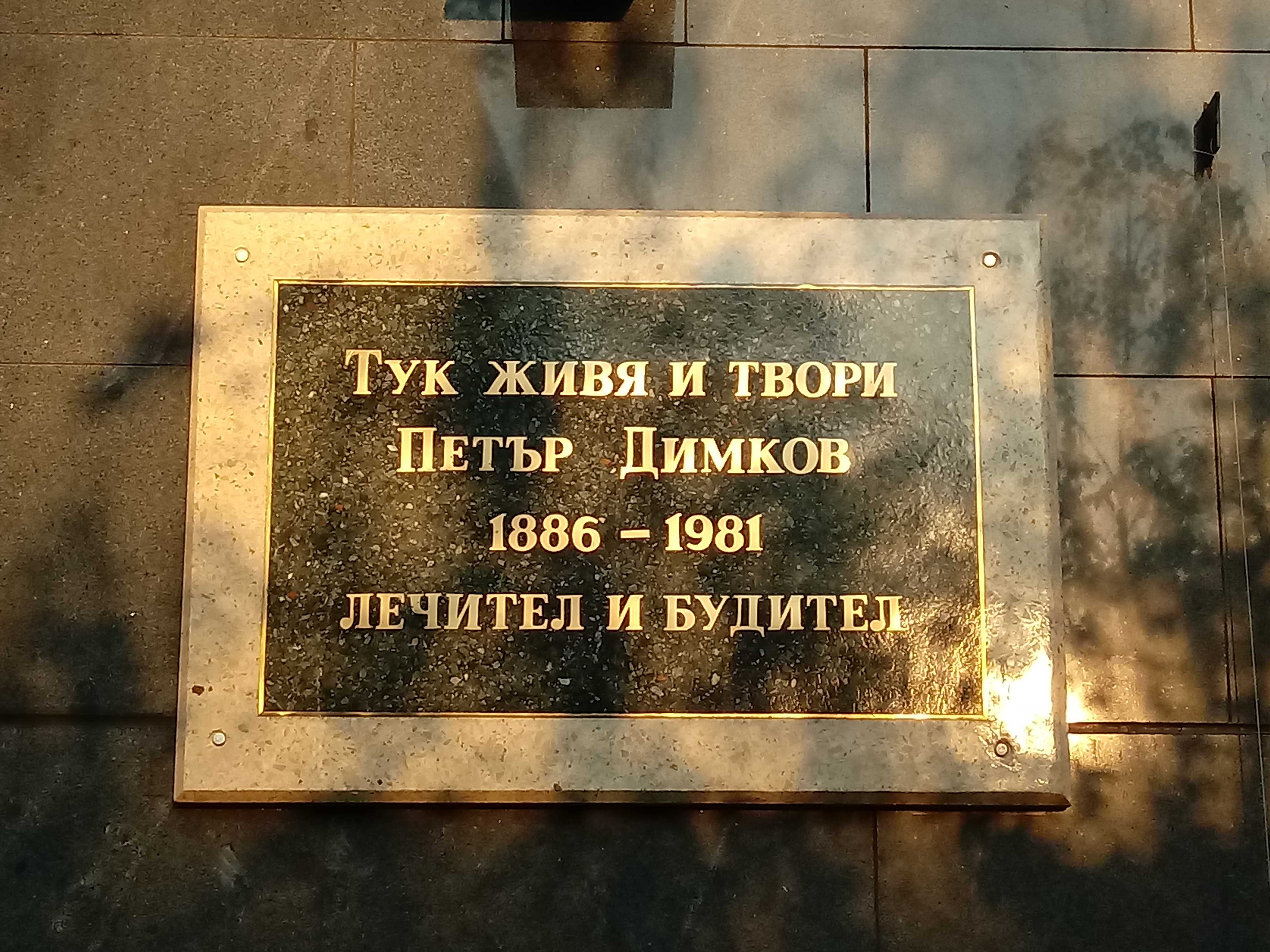 Memorial plaque of Petar Dimkov, 47 "Zlatovrah" Str., Sofia